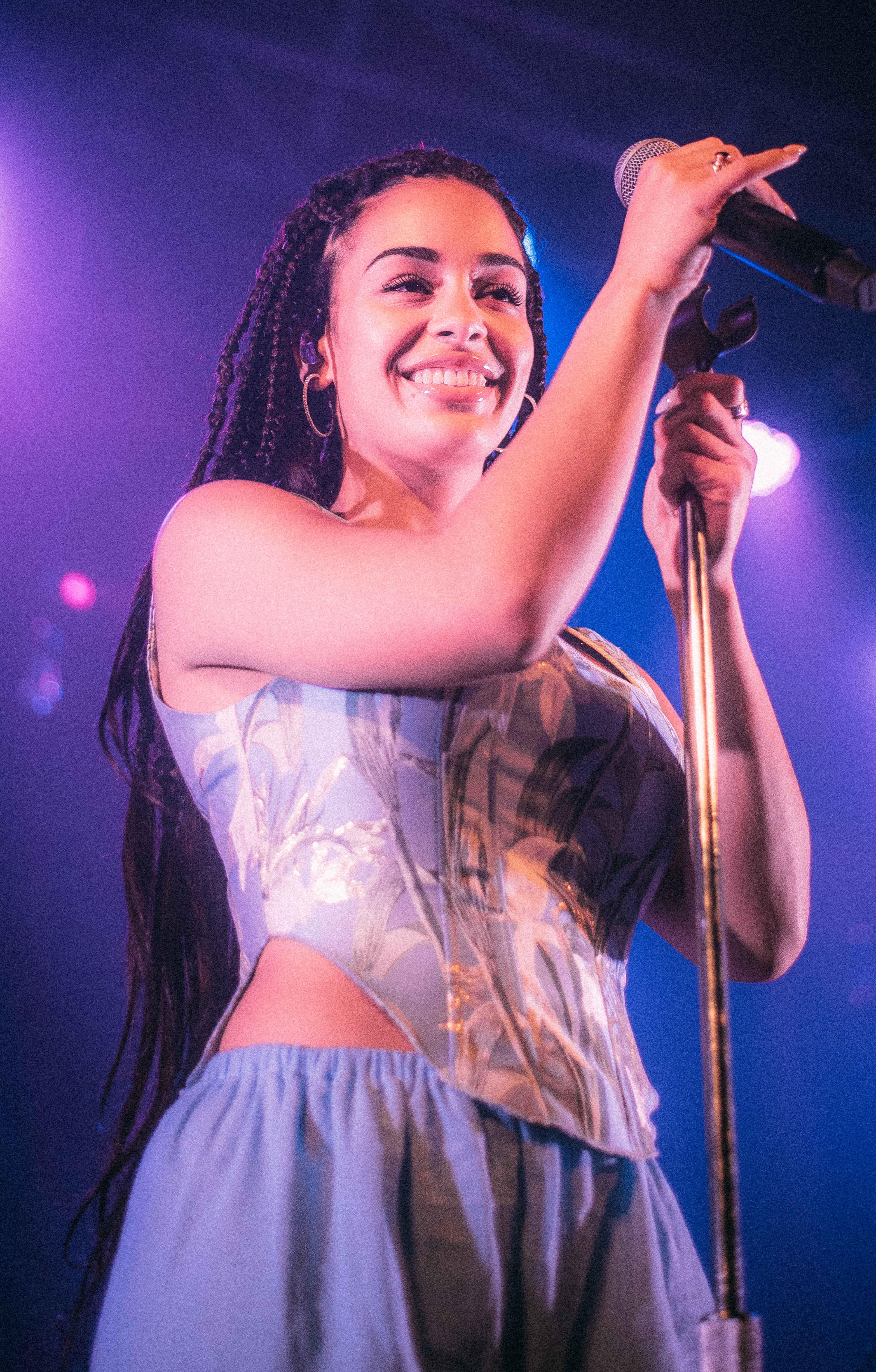 Jorja Smith at The Opera House (DSC_5986)